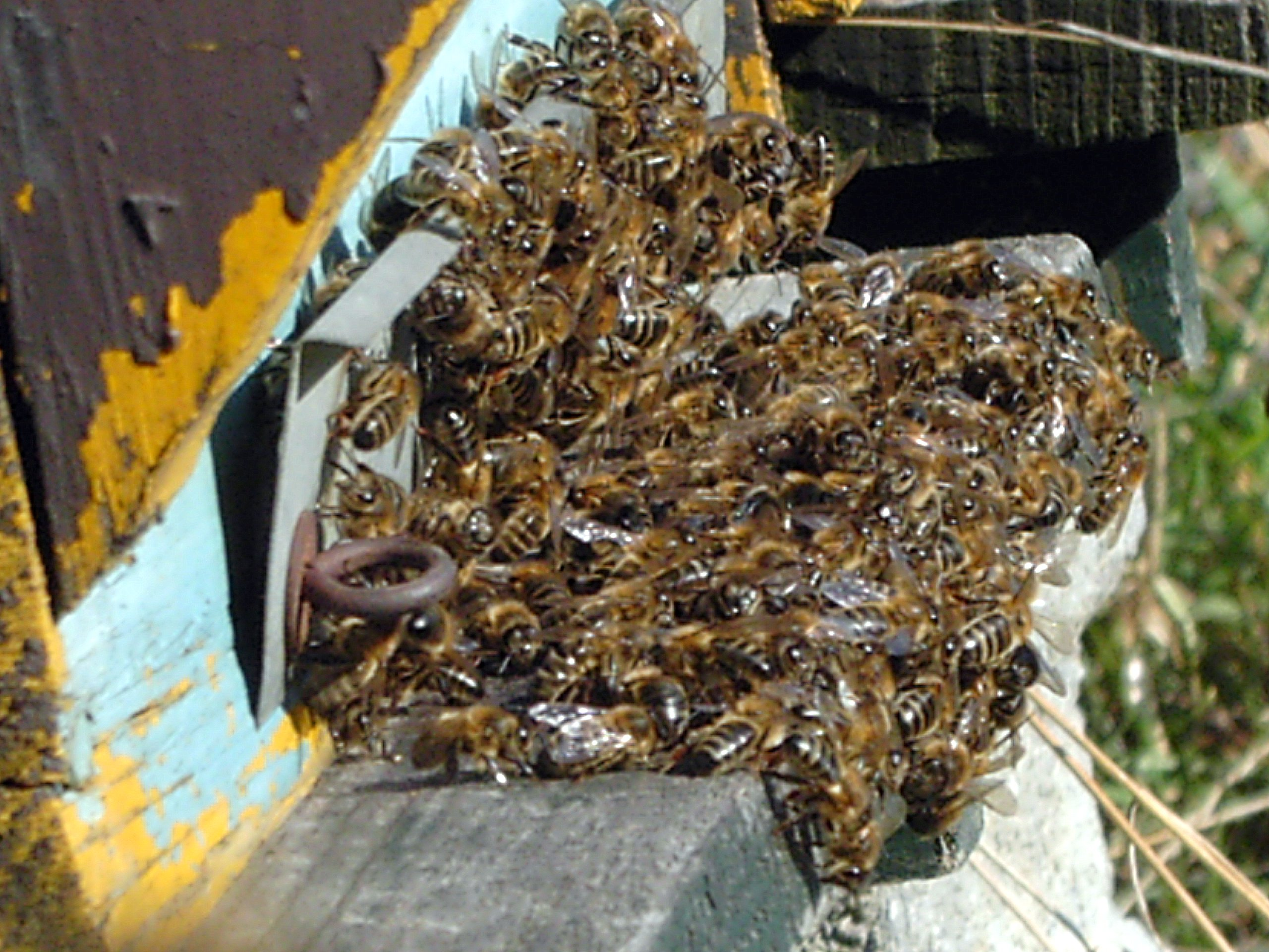 Black bees (Apis mellifera mellifera) reacting to a treatment with Apiguard (against Varroa).